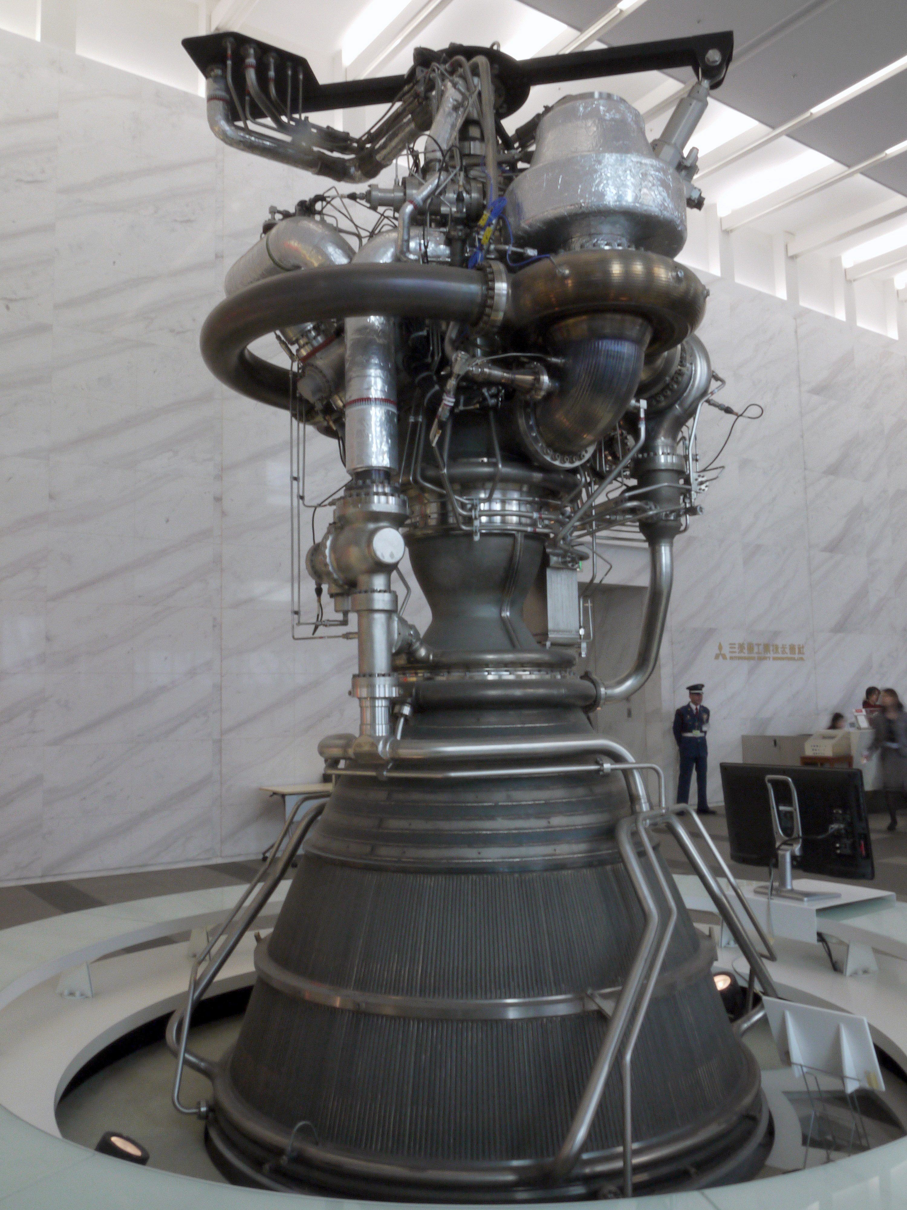 LE-7A rocket engine at Mitsubishi Heavy industries Shinagawa head office building.